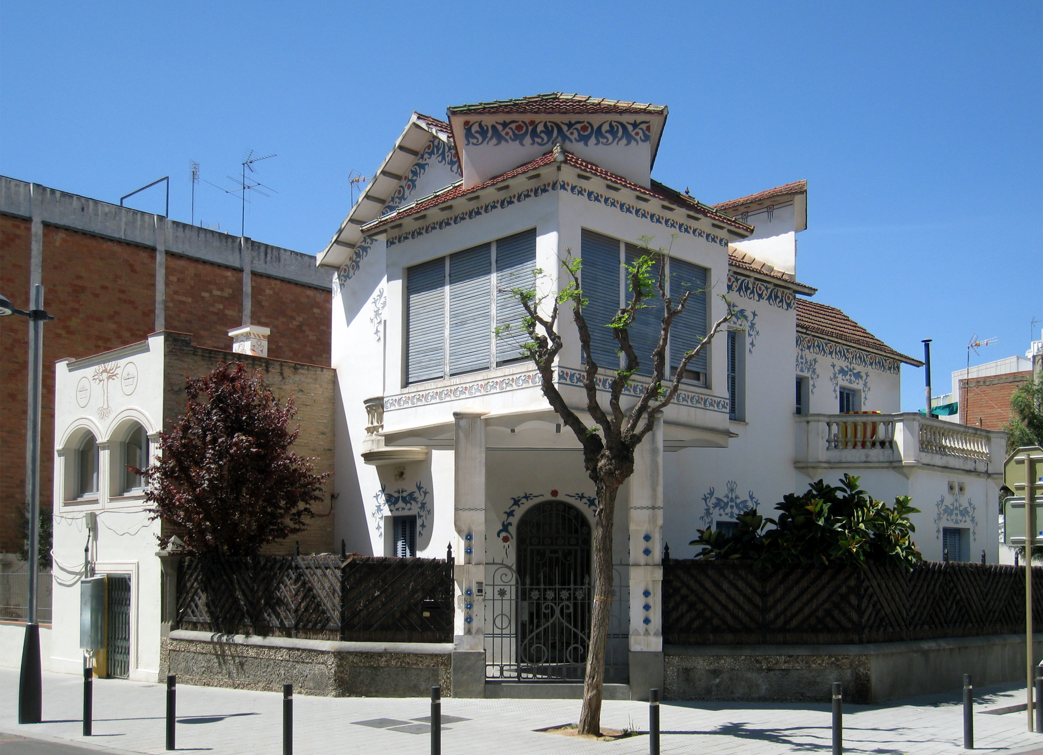 The single-family house Torre Serra Xaus built 1921 by Josep Maria Jujol in Sant Joan Despí, Catalonia, Spain.